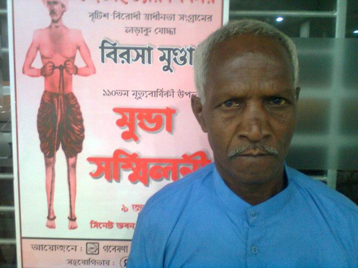 Ethnic people of Bangladesh